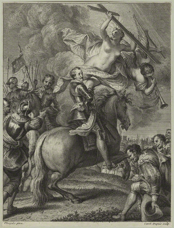 King Henry IV of France, line engraving, 23,1x17,5cm